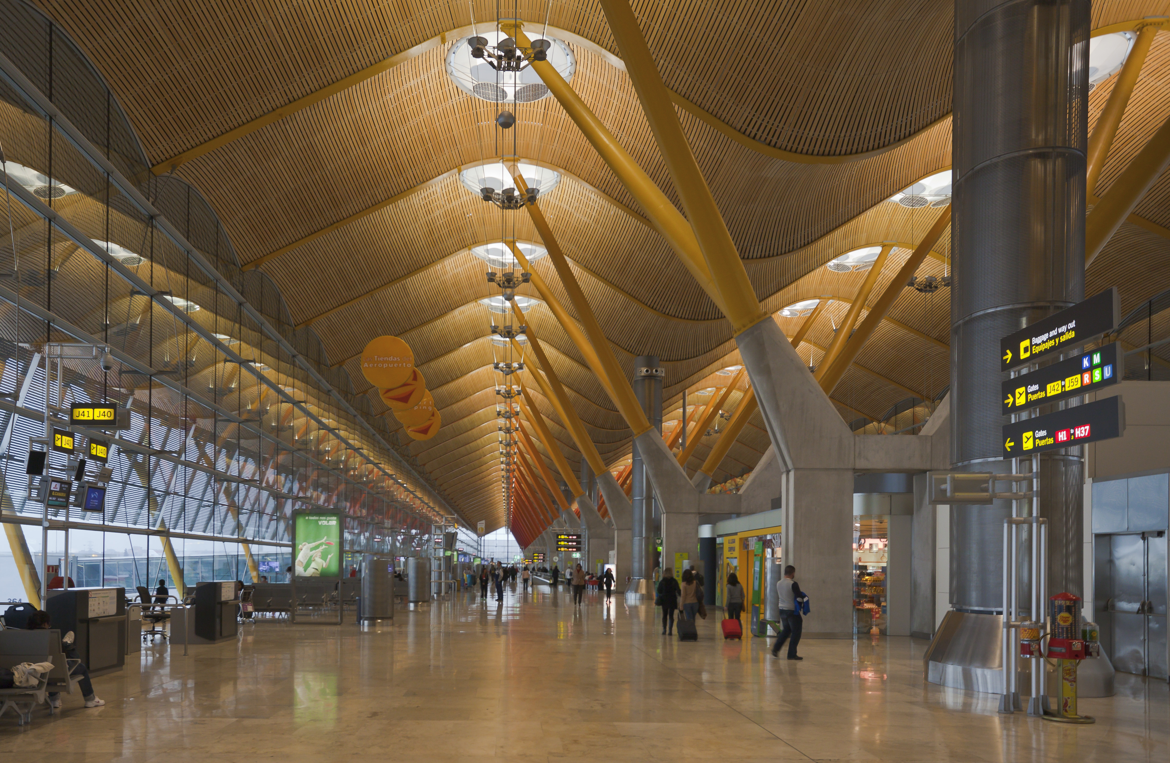 Terminal 4 of the airport Madrid-Barajas, Spain